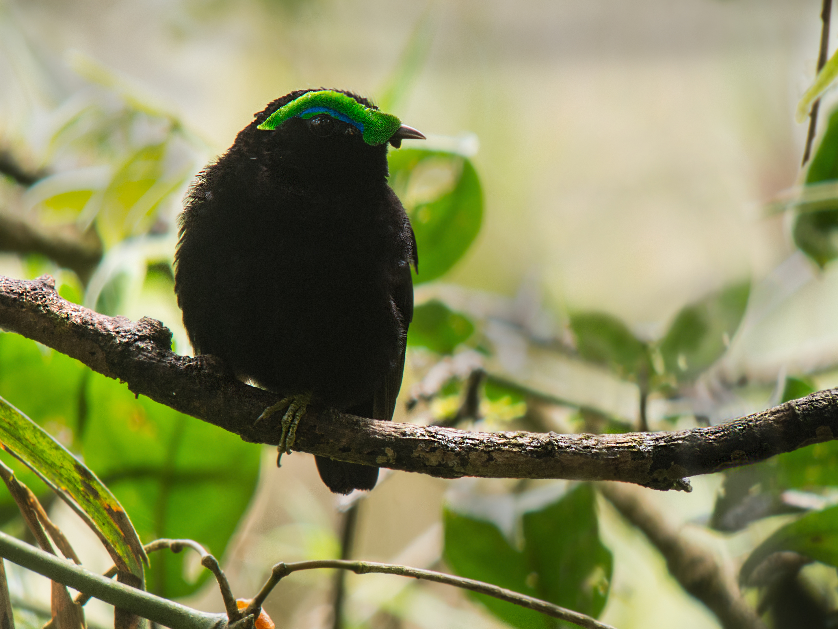 Velvet asity (Philepitta castanea) at Ranomafana National Park, Madagascar. Photograph taken by digiscoping with Swarovski ATM 80 HD 30 X, Nikon1 V1 + 11-27,5 mm lens (Adapter DCB)